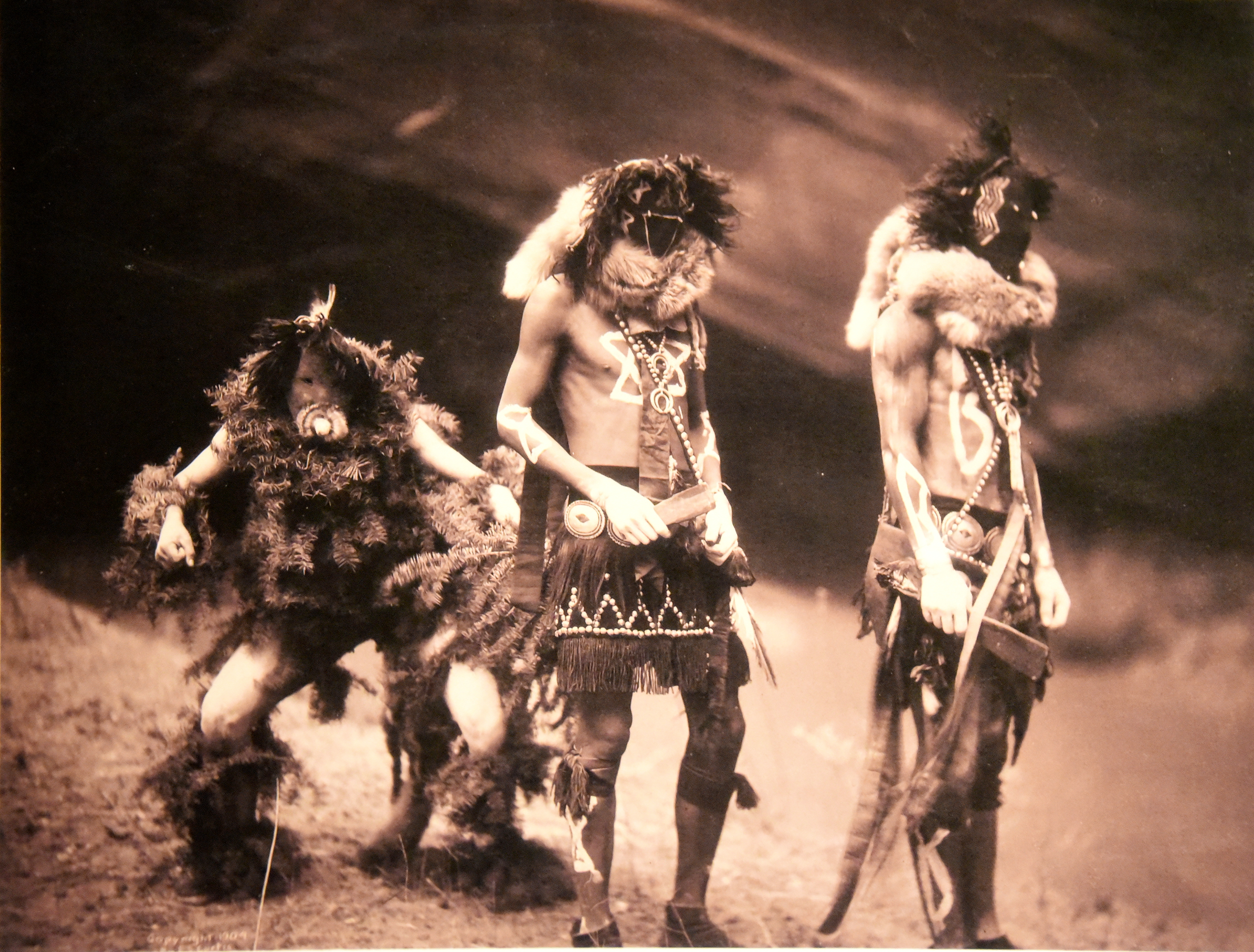 Navajo Yebichai dancers. Eduard S. Curtis. USA, 1900. The picture is housed in the Wellcome Collection and is on display. The original black&white picture is ©Wellcome Trust.